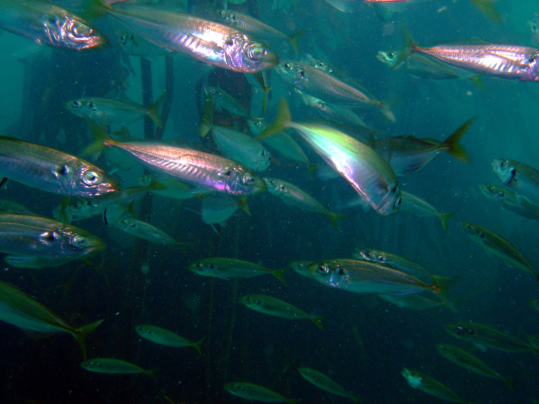 Maasbanker at Pyramid Rock reef